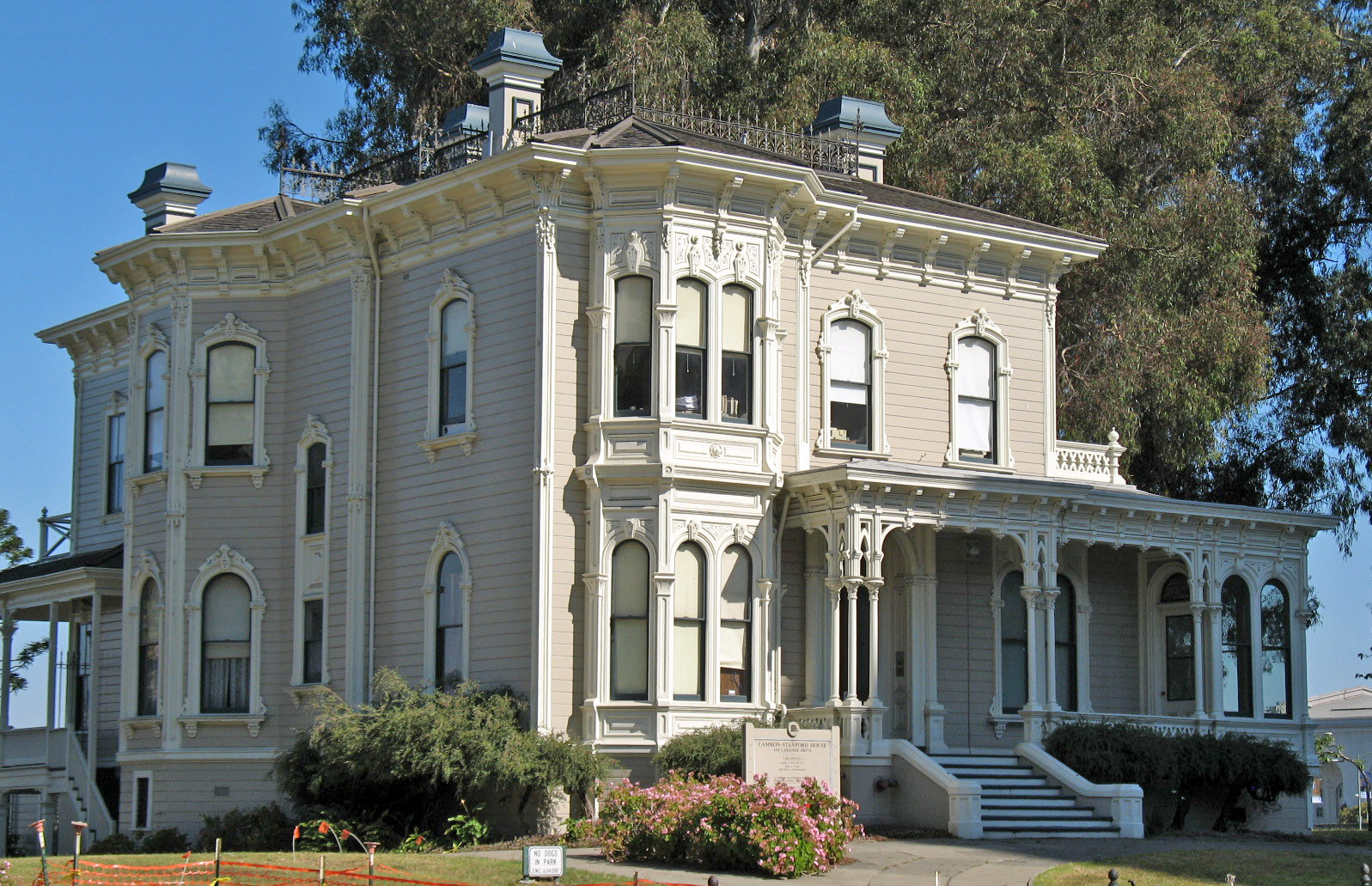 National Register of Historic Places listings in Alameda County, California. Cameron-Stanford House, 1426 Lakeside Dr, Oakland, CA. Photographed from the west side of Lakeside Dr., between 14th and 17th Sts.